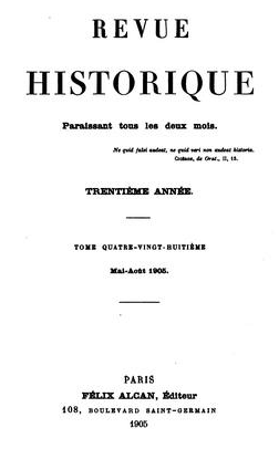 Revue historique, a French magazine.